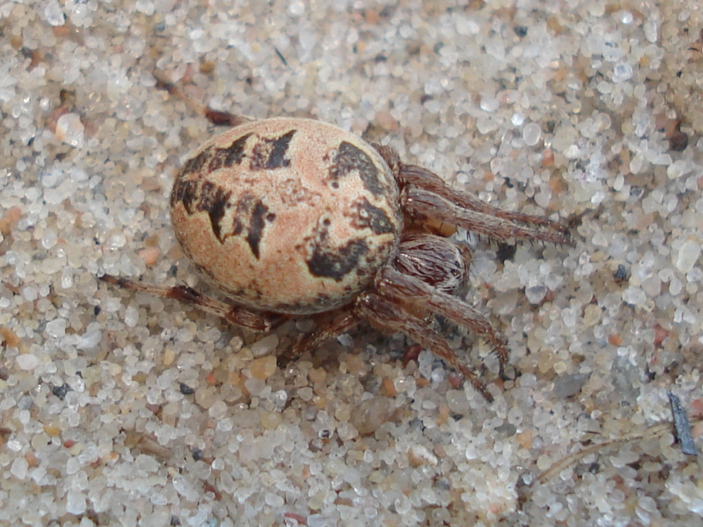 Larinioides cornutus